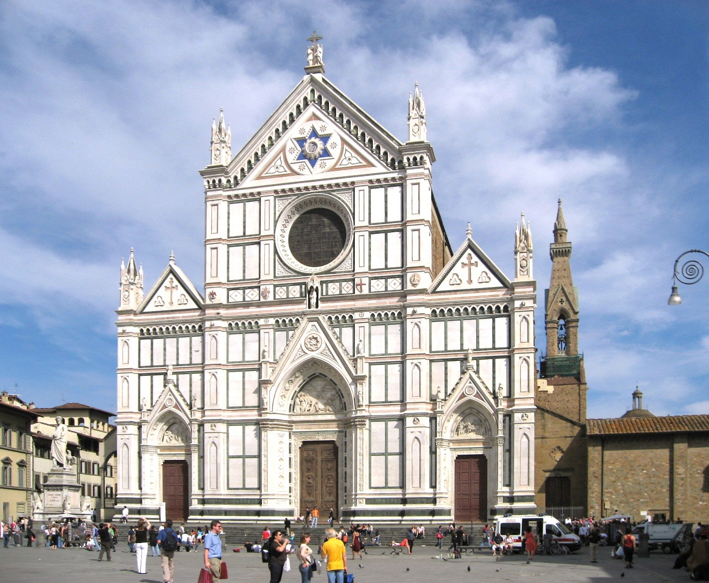 Exterior of the Basilica of Santa Croce (Florence).